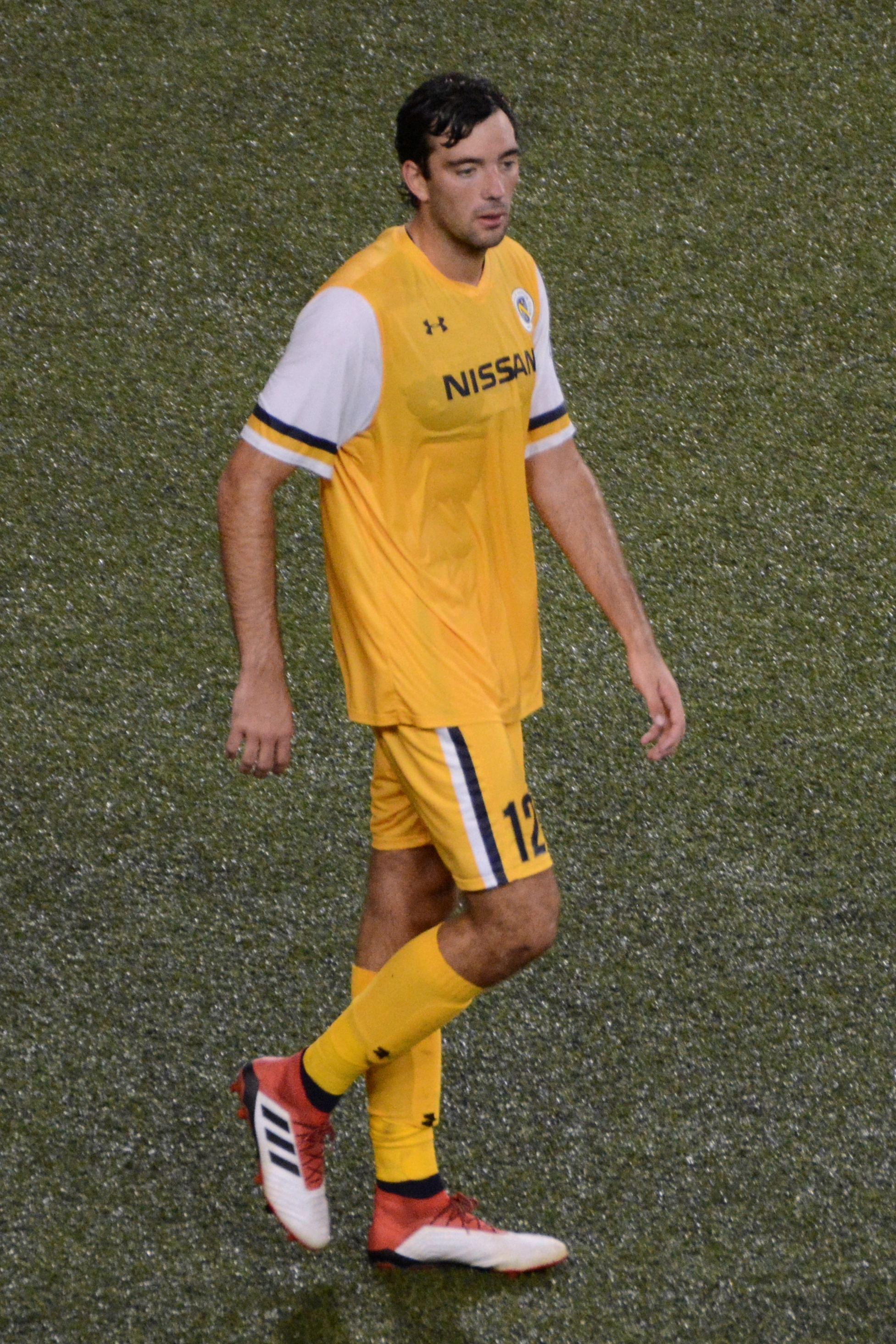 Tucker Hume playing for Nashville SC. Taken during a USL regular season match between FC Cincinnati and Nashville SC at Nippert Stadium in Cincinnati, USA on August 4, 2018.